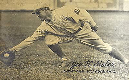 1921 Exhibits baseball card of George Sisler